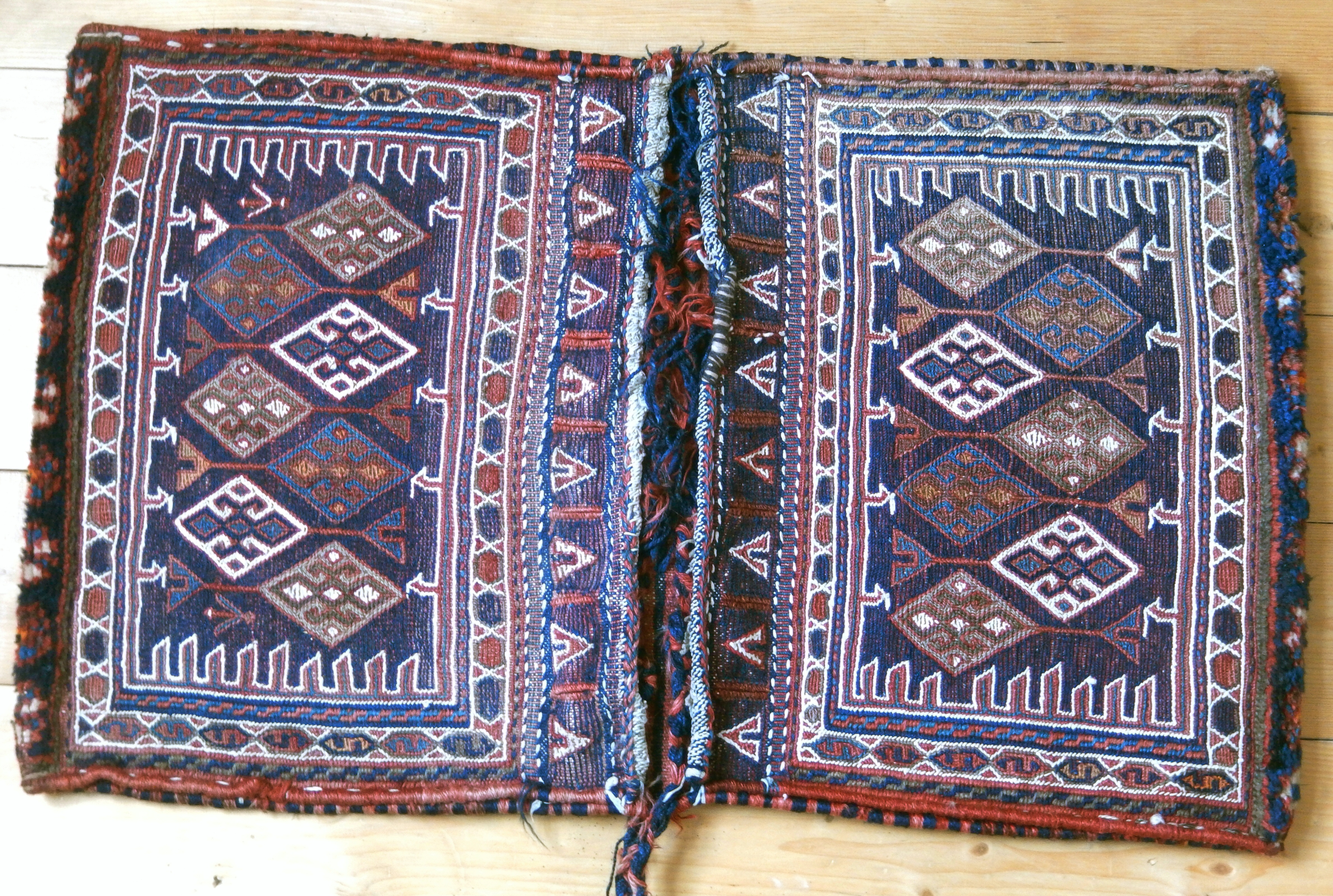 Front of Soumak saddle bag, Luristan, Iran. End of 20th century